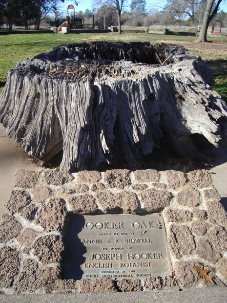 Stump of the Hooker Oak in Bidwell Park, Chico, California